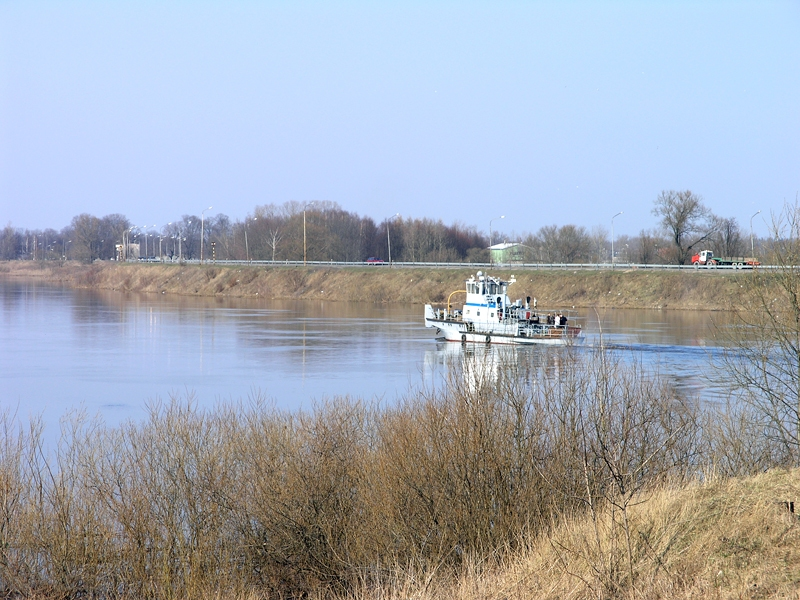 Ship on Daugava river in Daugavpils. 2007.